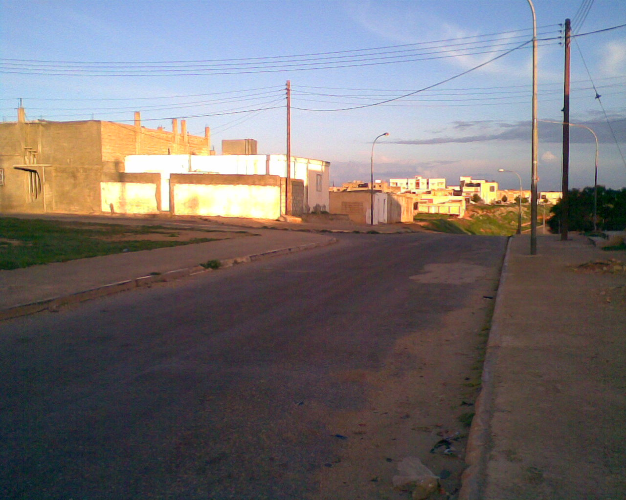 The Libyan village of Zawiyat al Urqub.